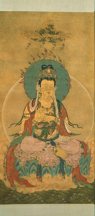 Mahasthamaprapta